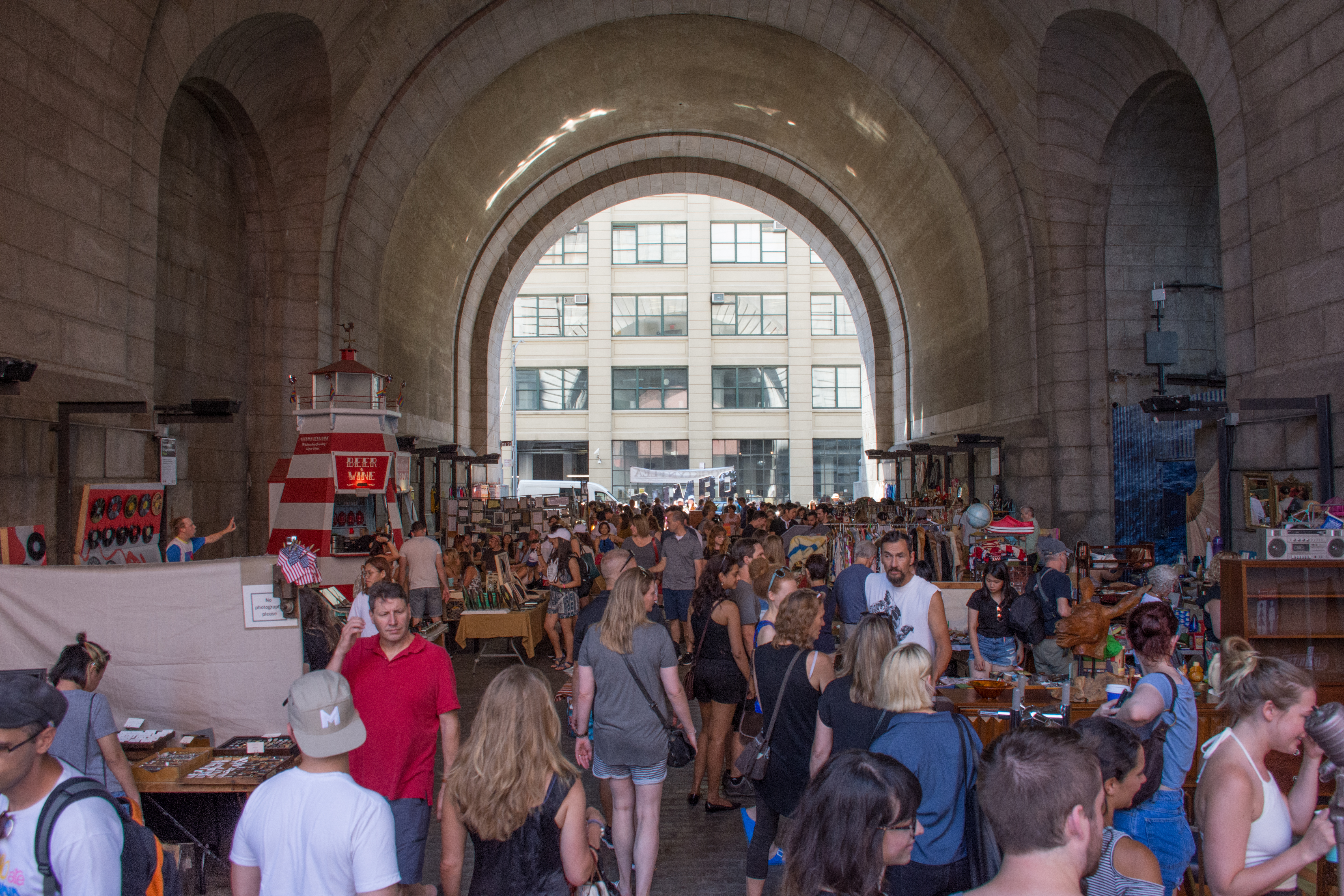 A street fair under the Manhattan Bridge overpass in Dumbo, Brooklyn, July 2017.